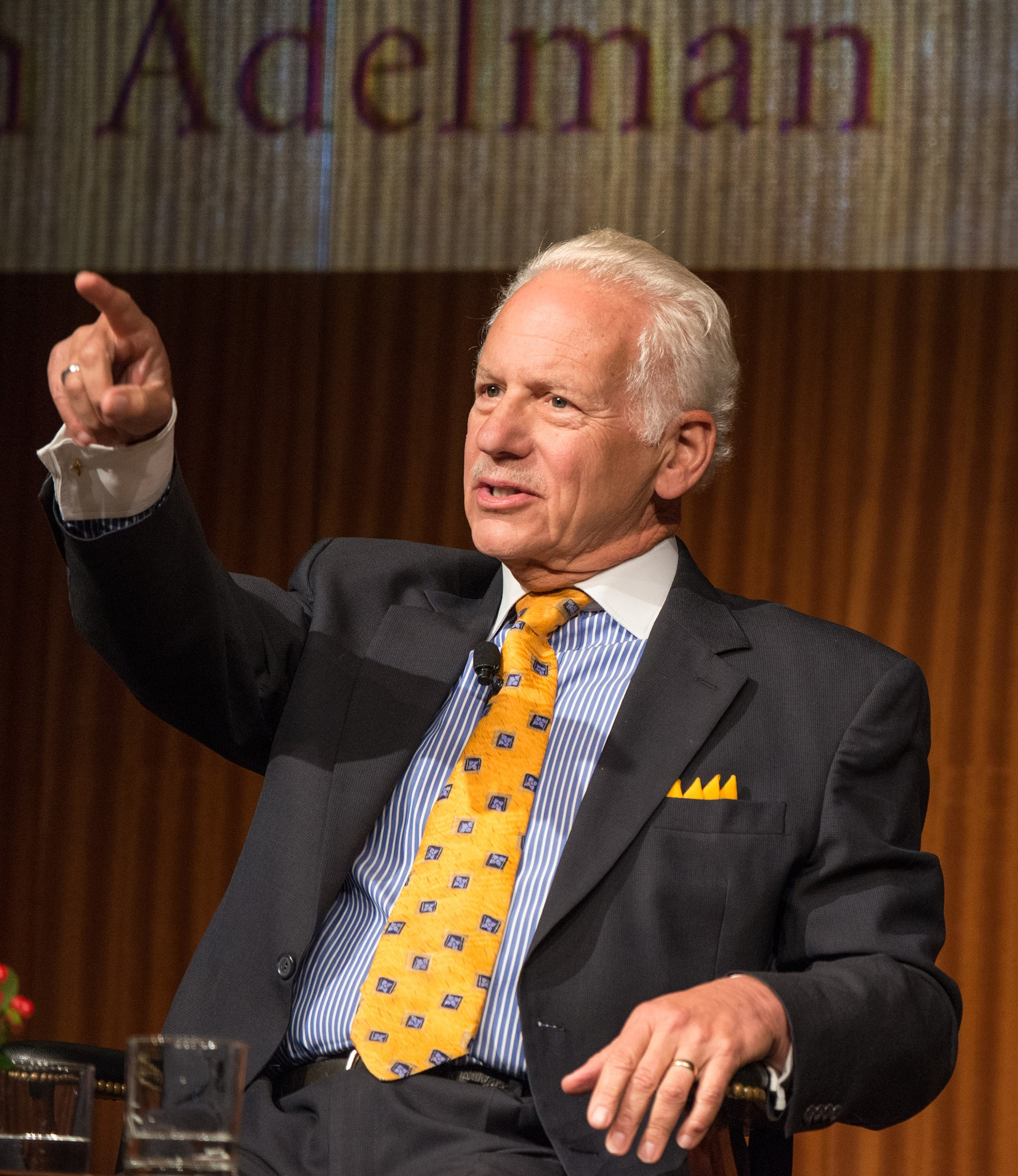 Members of Friends of the LBJ Library gathered in the LBJ Auditorium on Oct. 20th, 2015, for a discussion between former U.S. Ambassador to the United Nations Ken Adelman and historian H.W. Brands about the life and legacy of our 40th President, Ronald Reagan. LBJ Library Director Mark Updegrove moderated the discussion. LBJ Library photo by Jay Godwin